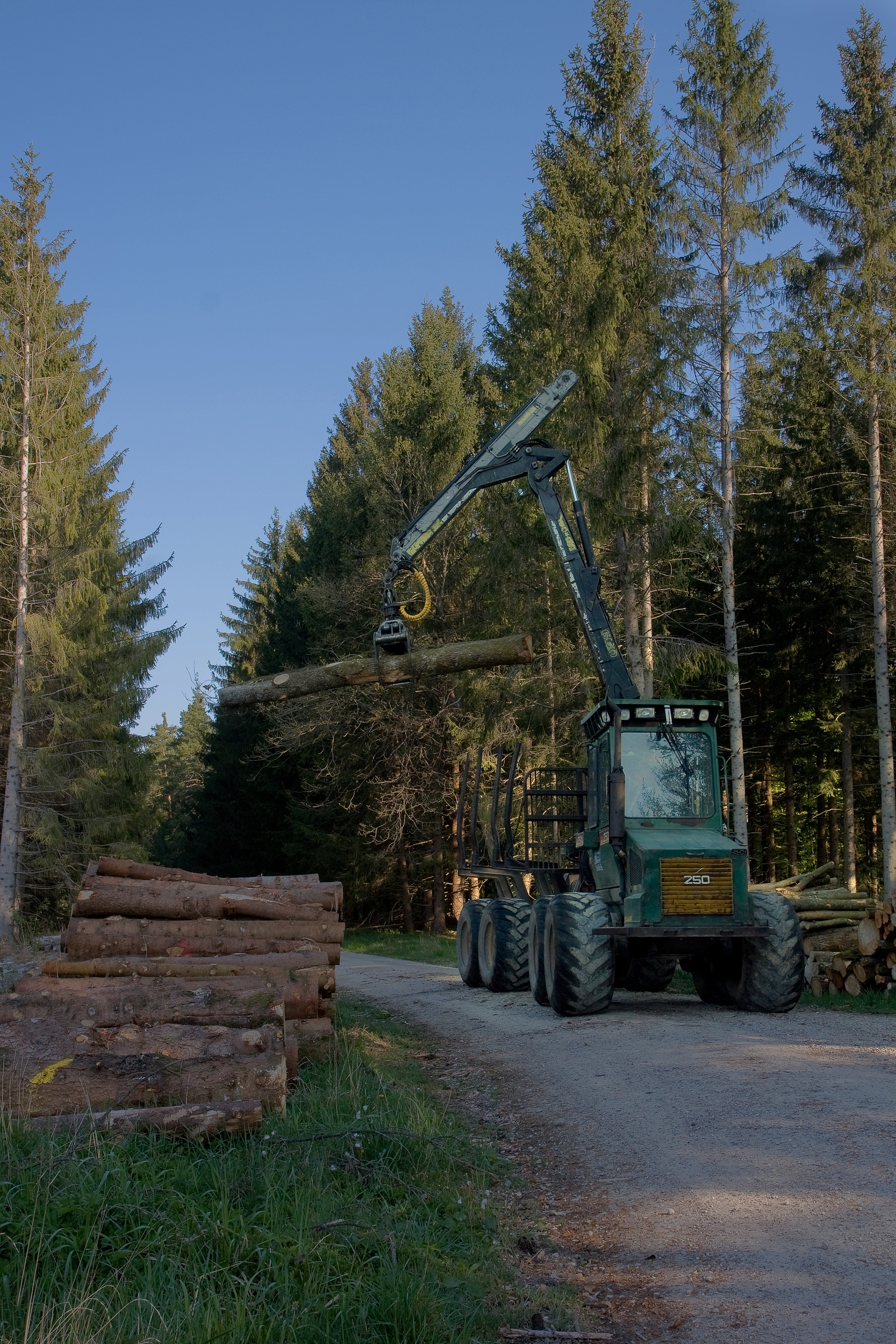 Forestry Forwarder Ösa 250. A forwarder is a vehicle that carries logs from the stump to a roadside landing. Unlike a skidder, a forwarder carries logs clear of the ground, which can reduce soil impacts but tends to limit the size of the logs it can move. Forwarders are typically employed together with harvesters in cut-to-length logging operations.